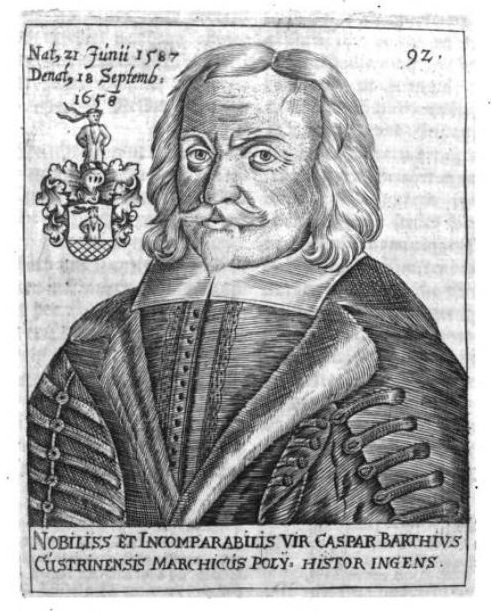 Caspar von Barth (1587–1658)